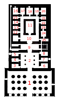 Plan of the Hathor temple, Dendara, Egypt [1]